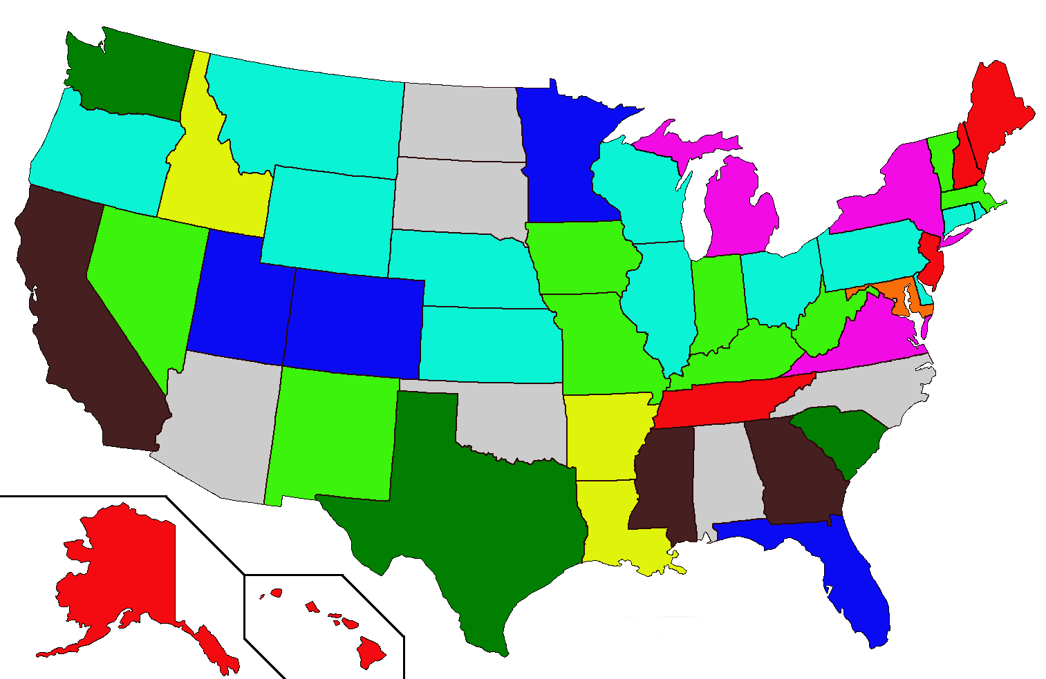 Shows the number of officials elected statewide, not including judges and members of Congress